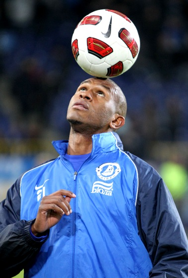 Alcides is a Brazilian football player